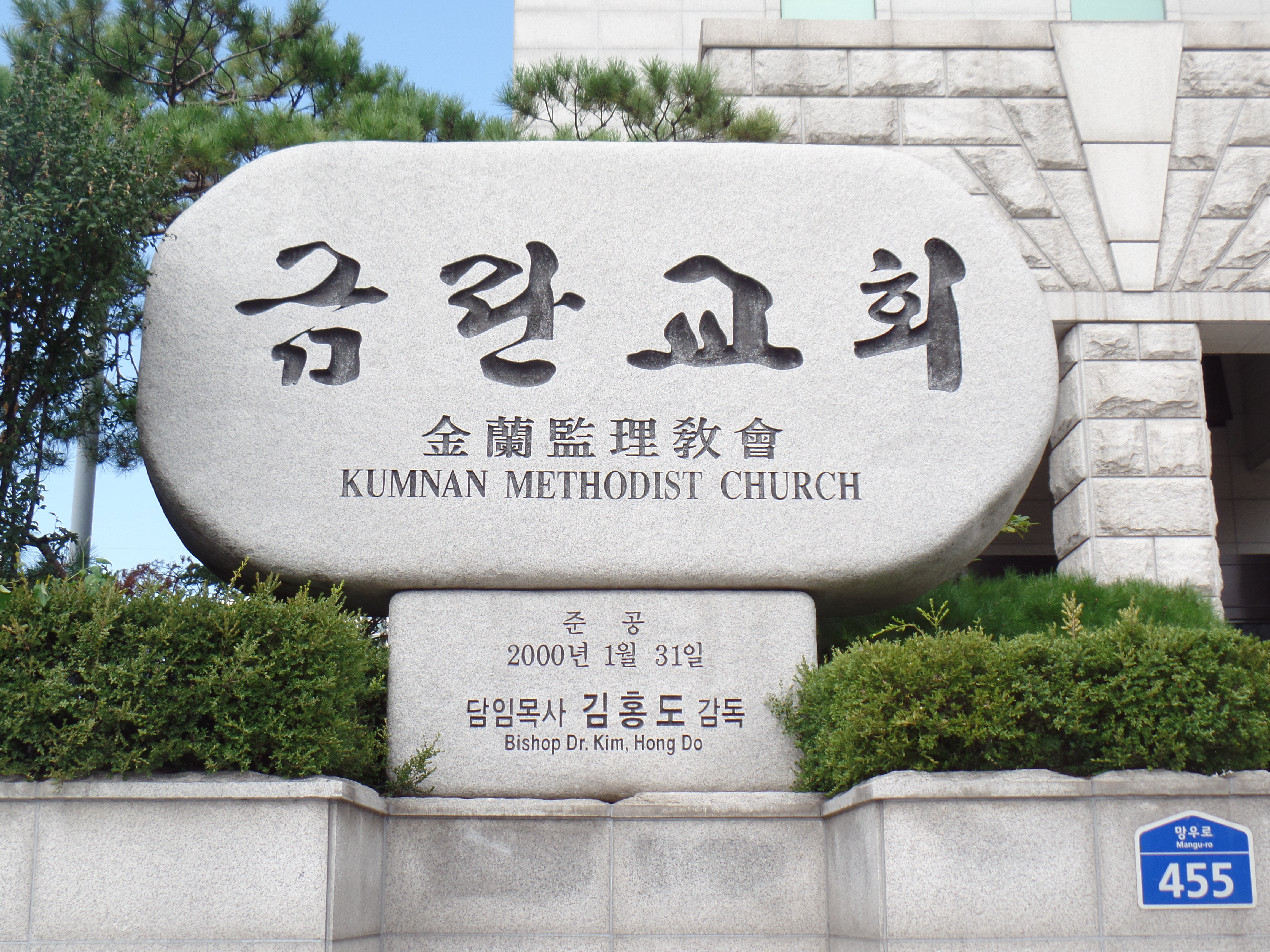 Kumnan Methodist Church Stone sign